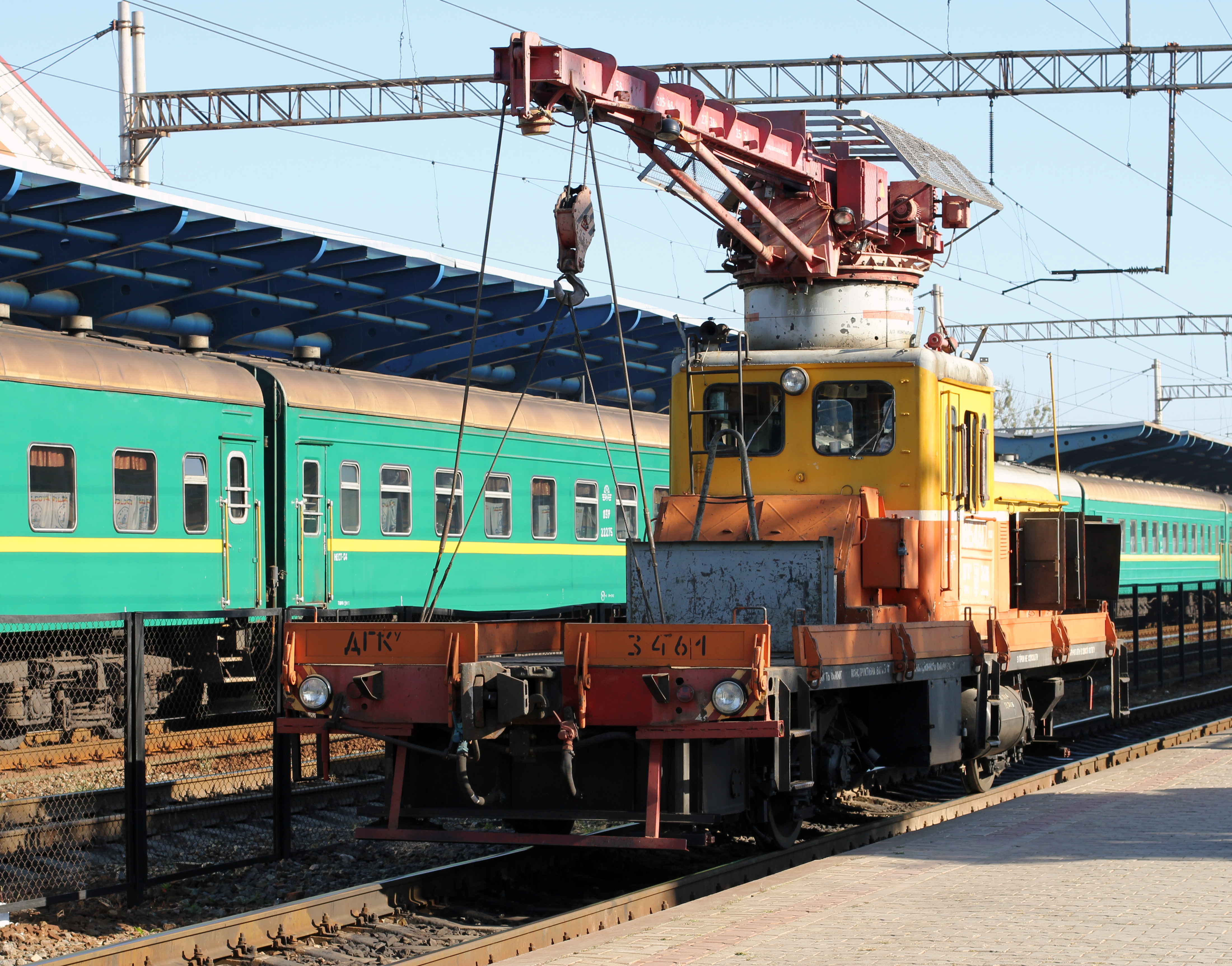 Rail crane vehicle DGKu #3461 in Vinnitsa railway station.